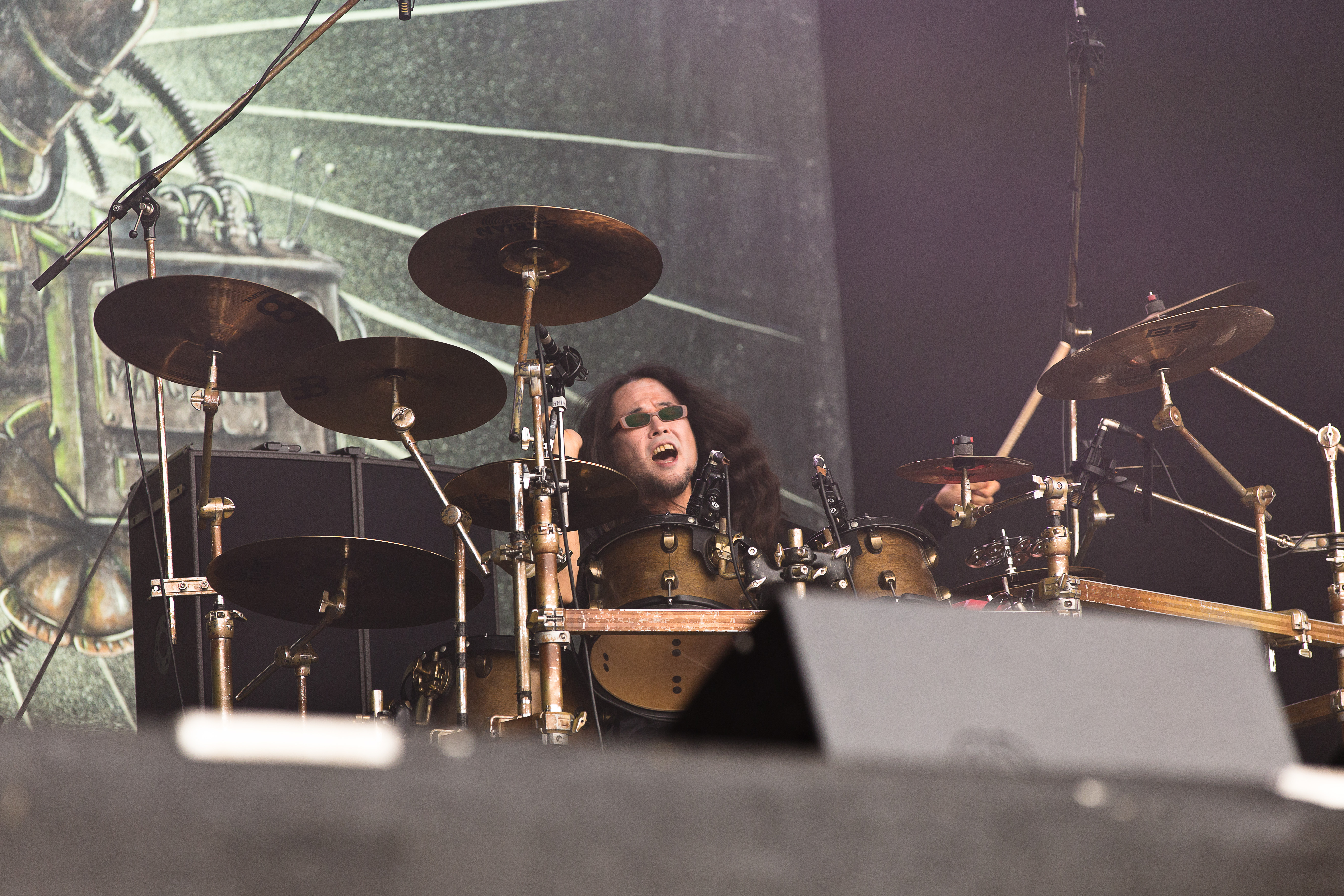 The German metal band Coppelius at the Rockharz Open Air 2016 in Ballenstedt/Germany.